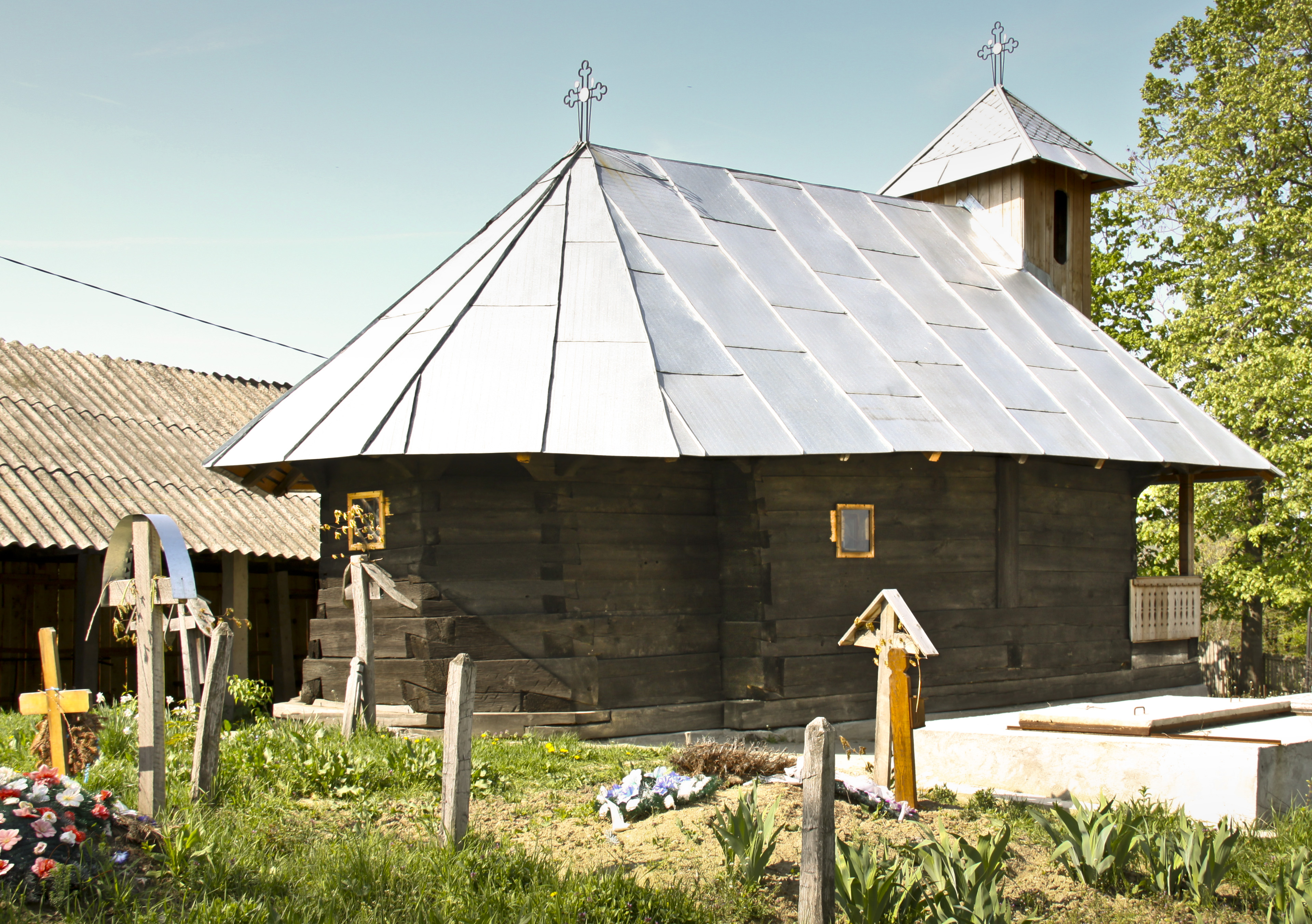 Dealu Bisericii, Vâlcea county, Romania: the wooden church.